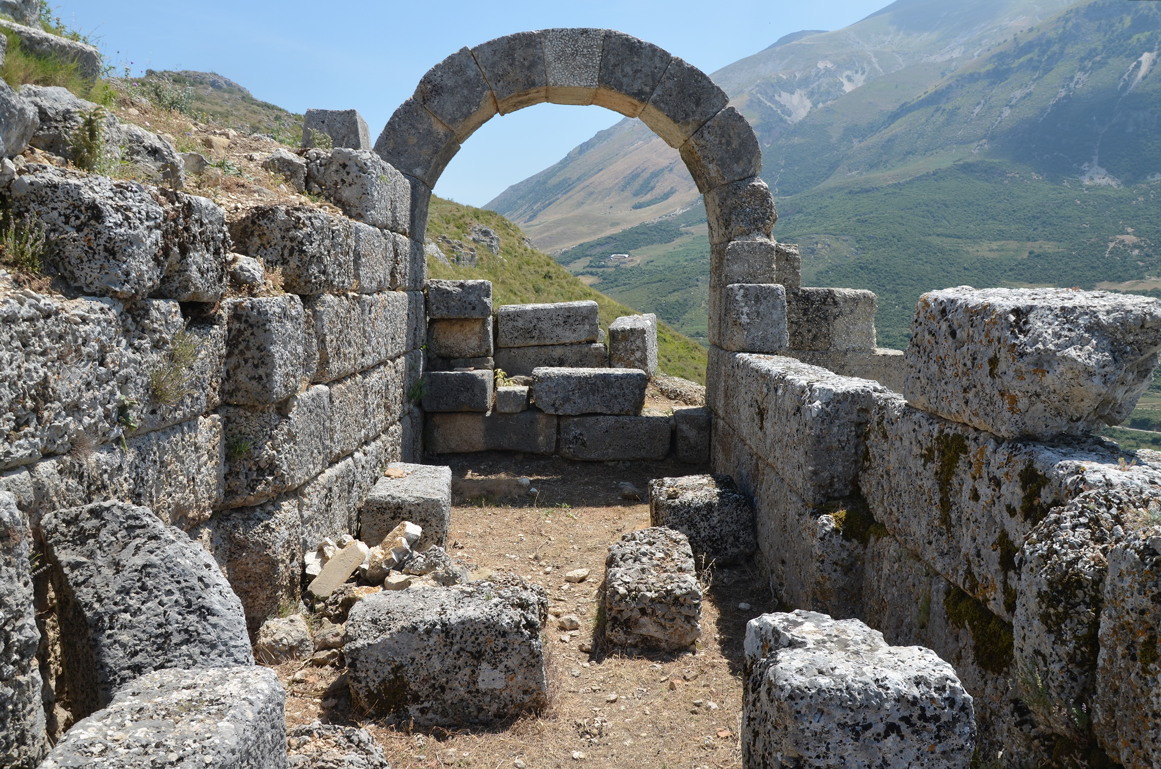 One of the city gates of Amantia with archway belonging to the second phase of construction of the city, Albania